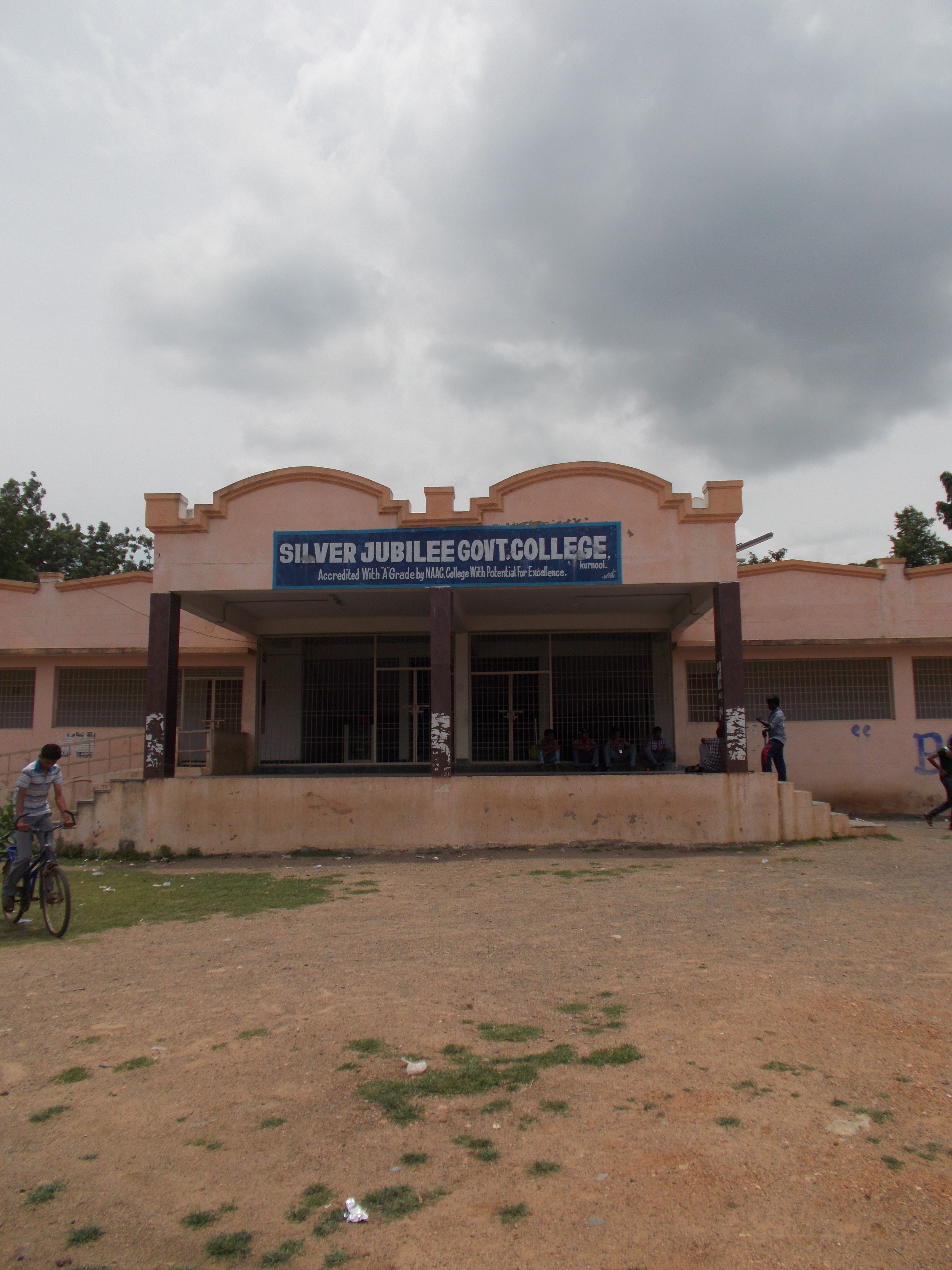 Silver Jubilee College, Main Building, Close-up shot, B Camp, Kurnool.